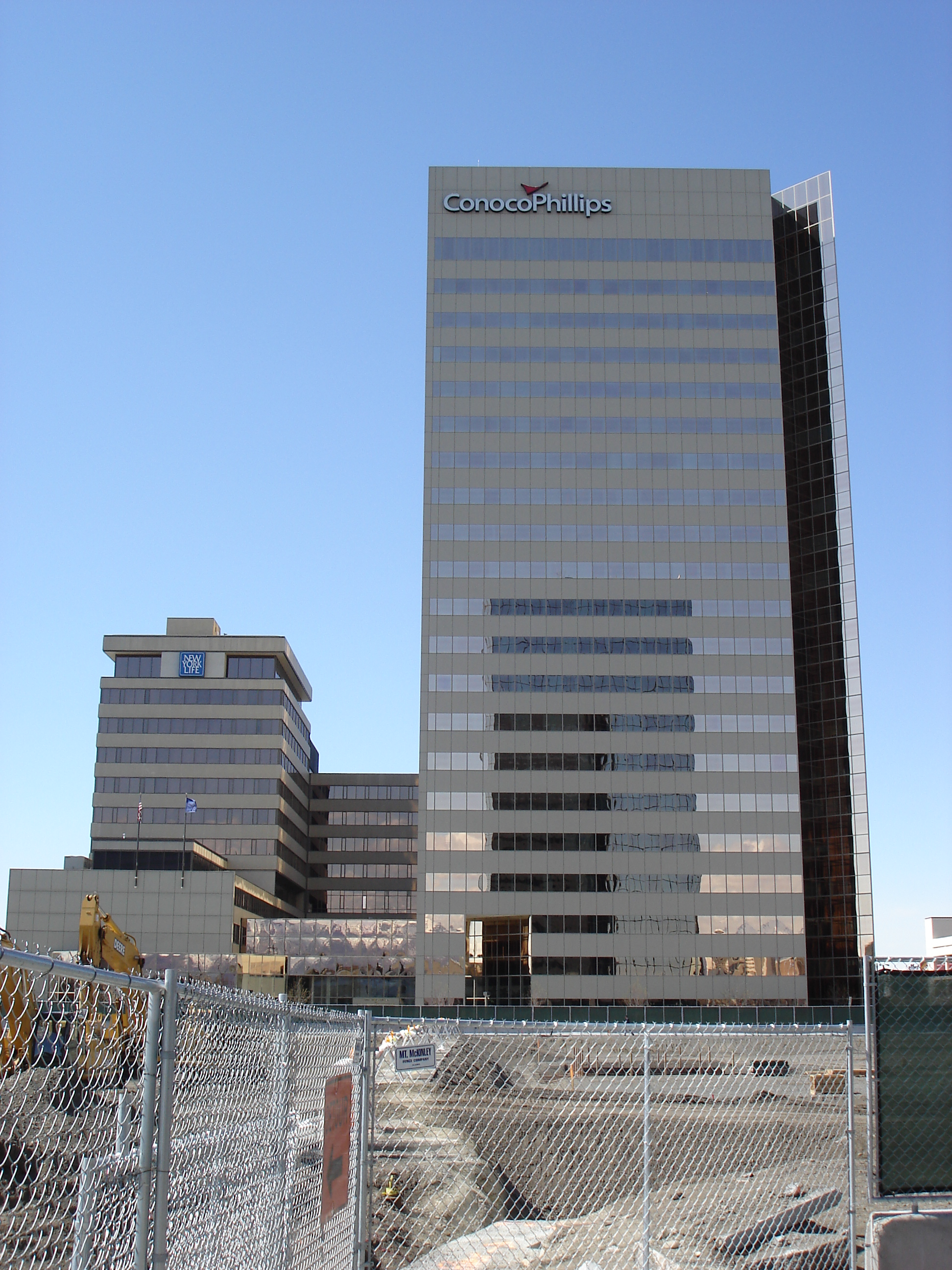 The Conoco-Phillips building, the tallest building in Alaska. Located in Downtown Anchorage, AK. The construction in the foreground is the Dena'ina Center.